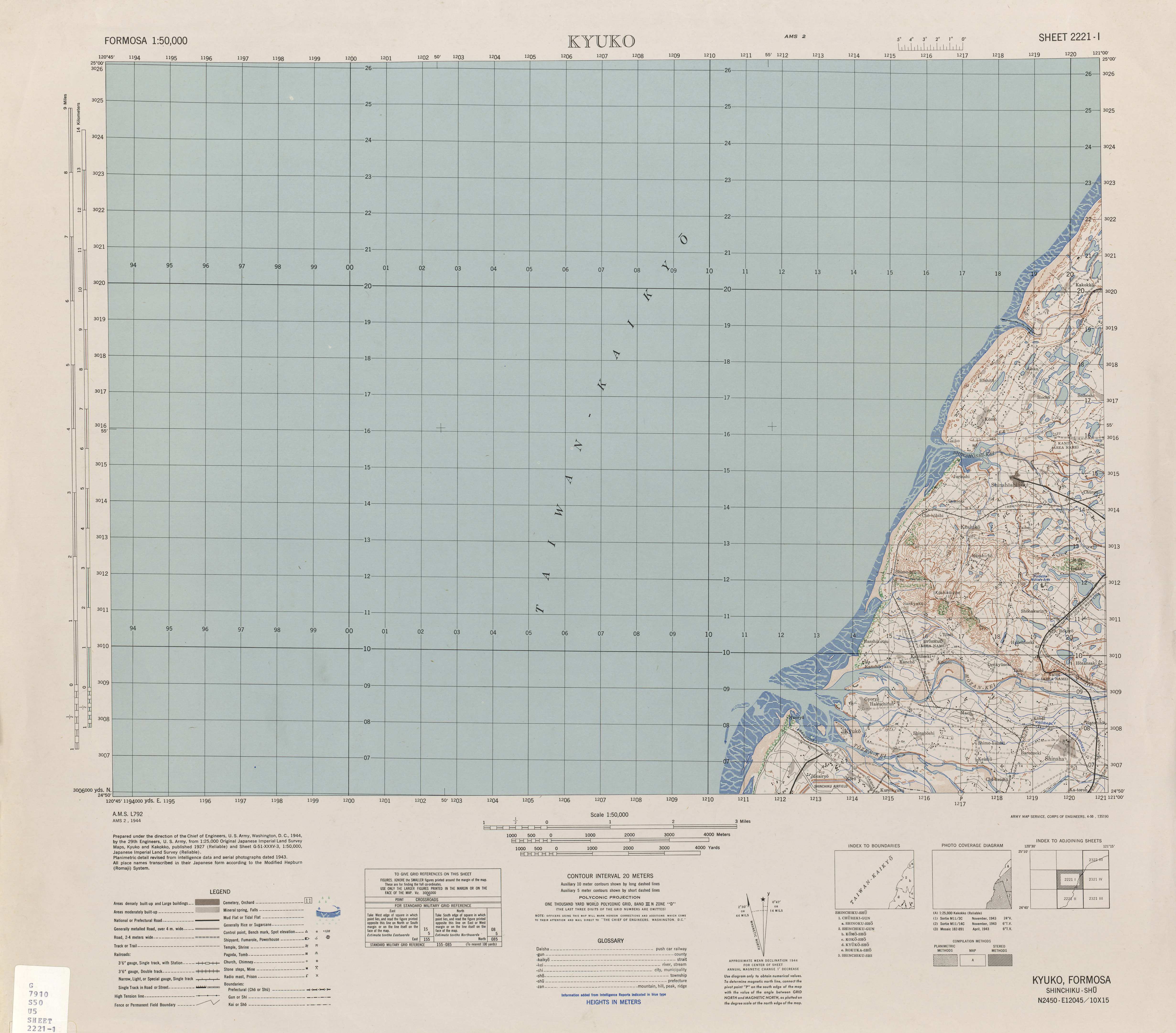 Map from Formosa (Taiwan) 1:50,000 AMS Series L792